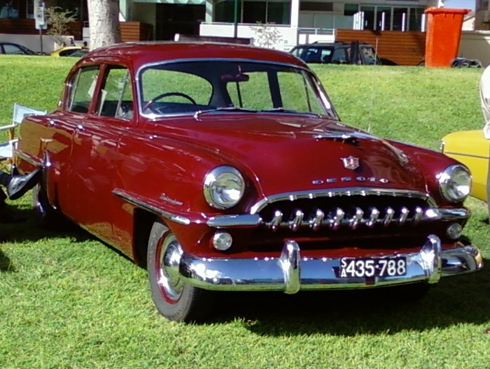 De Soto Diplomat Sedan on display at the Chrysler Restorers Club day at Glenelg in South Australia on 11 April 2010. The Diplomat was built by Chrysler Australia in Sedan and Coupe Utility form from 1954 to 1957.